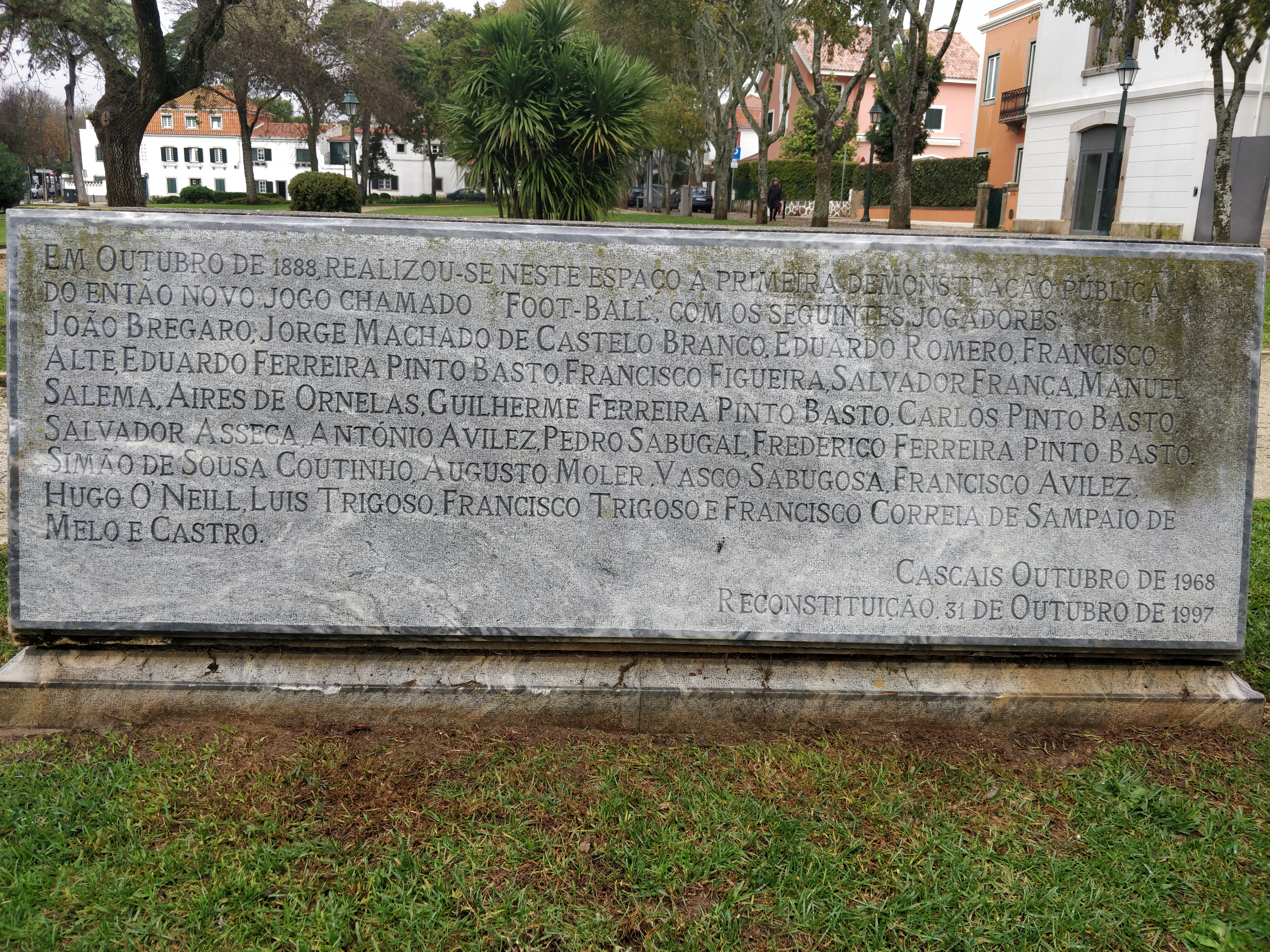 A memorial to the first football (soccer) match played on mainland Portugal. This took place at Cascais in October 1888 under the auspices of the Cascais Sporting Club.